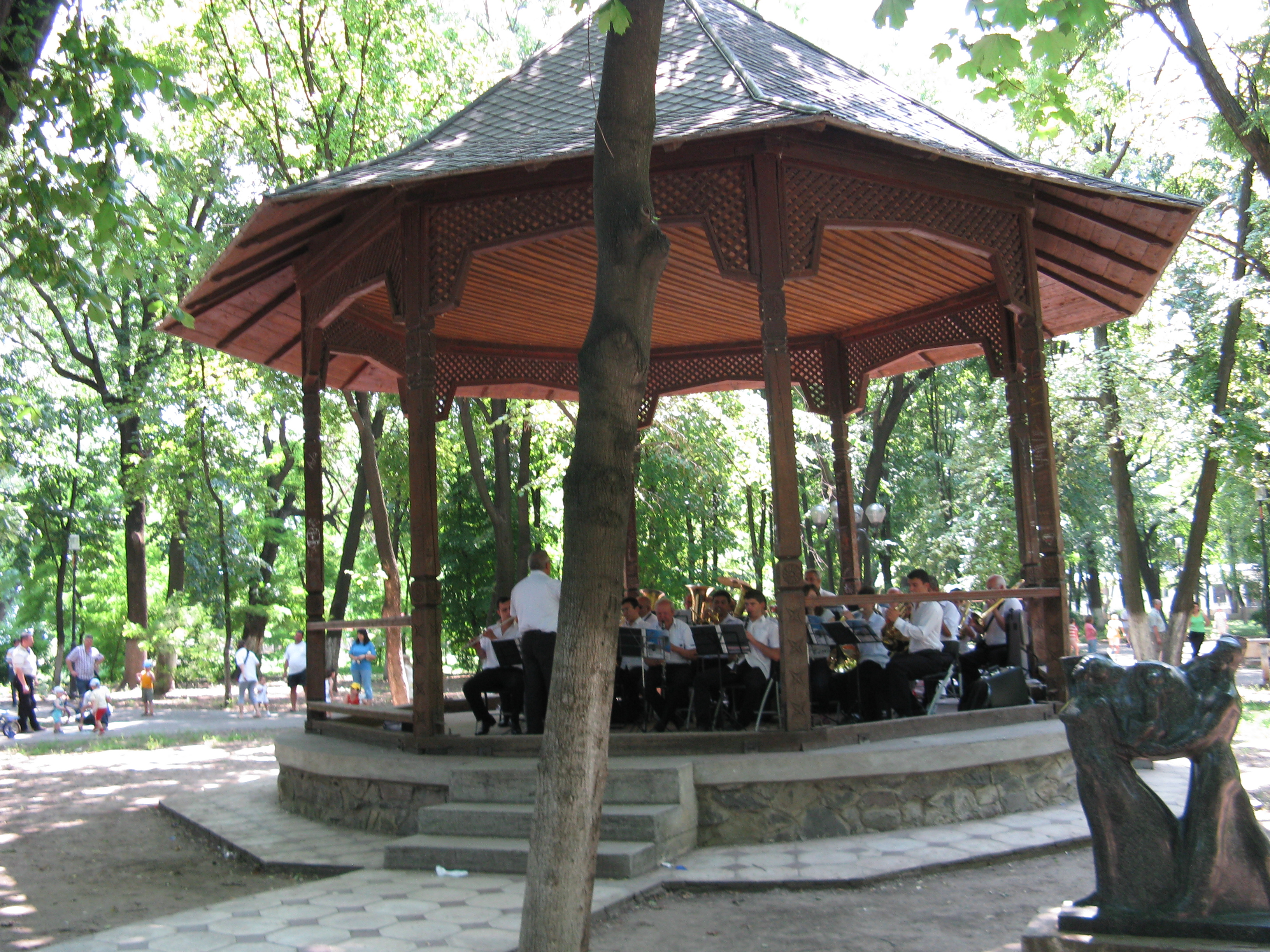 A concert band in a park